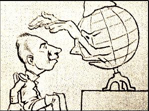 Frame from the animated short film "Kaiser" (1917) by the brazilian cartoonist Álvaro Marins (Seth), representing the German Emperor Wilhelm II